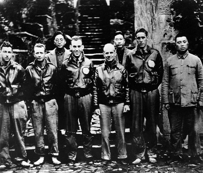 Photo #: NH 97502 Doolittle Raid on Japan, April 1942; Doolittle and flight crew in China after the raid. Lieutenant Colonel James H. Doolittle, USAAF, (center) with members of his flight crew and Chinese officials in China after the 18 April 1942 attack on Japan. Those present are (from left to right): Staff Sergeant Fred A. Braemer, Bombardier; Staff Sergeant Paul J. Leonard, Flight Engineer/Gunner; General Ho, director of the Branch Government of Western Chekiang Province; Lieutenant Richard E. Cole, Copilot; Lt.Col. Doolittle, Pilot and mission commander; Henry H. Shen, bank manager; Lieutenant Henry A. Potter, Navigator; Chao Foo Ki, secretary of the Western Chekiang Province Branch Government. Official U.S. Army Air Forces Photograph, from the collections of the Naval Historical Center. retrieved from Naval Historical Center at